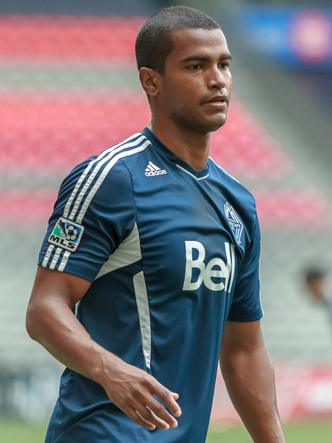 Sullivan Silva, Training Session with Vancouver Whitecaps FC at BC Place, 13 August 2012